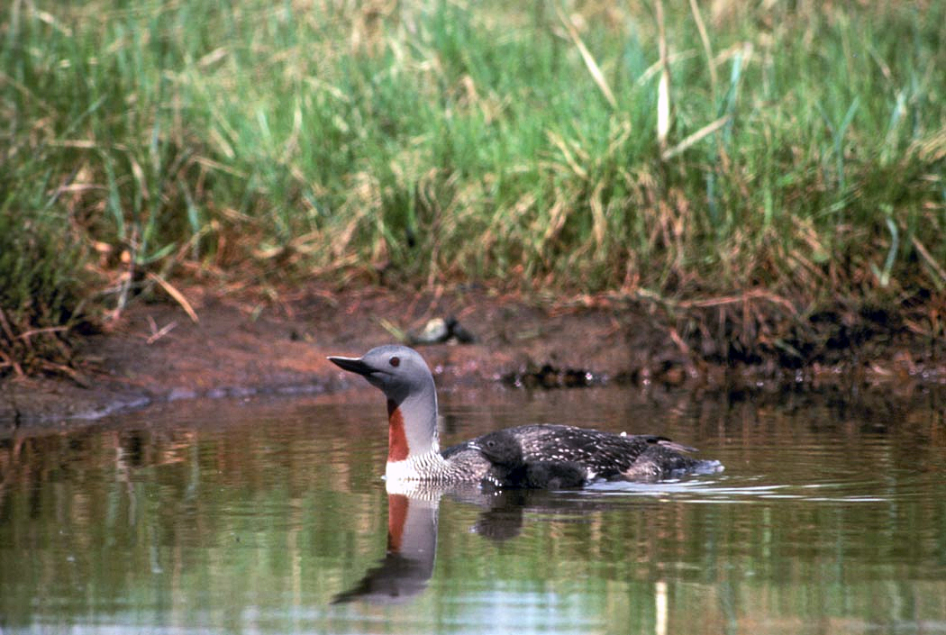 Gavia stellata with chick